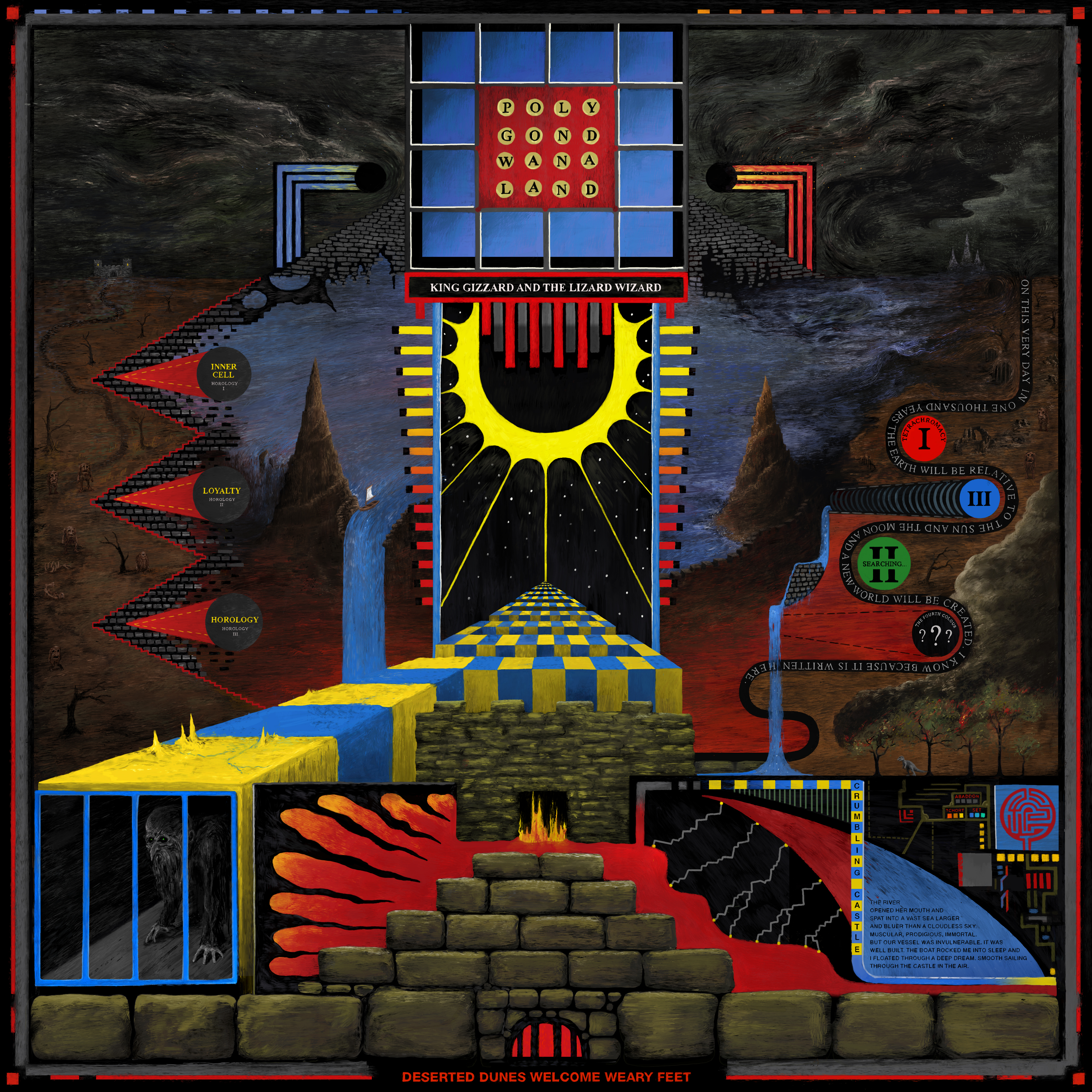 Cover art for Polygondwanaland by King Gizzard & the Lizard Wizard, created by Jason Galea. It is in the public domain by the band's own admission, free to use.